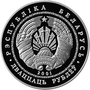 Commemorative coins "The Tower of Kamenets"